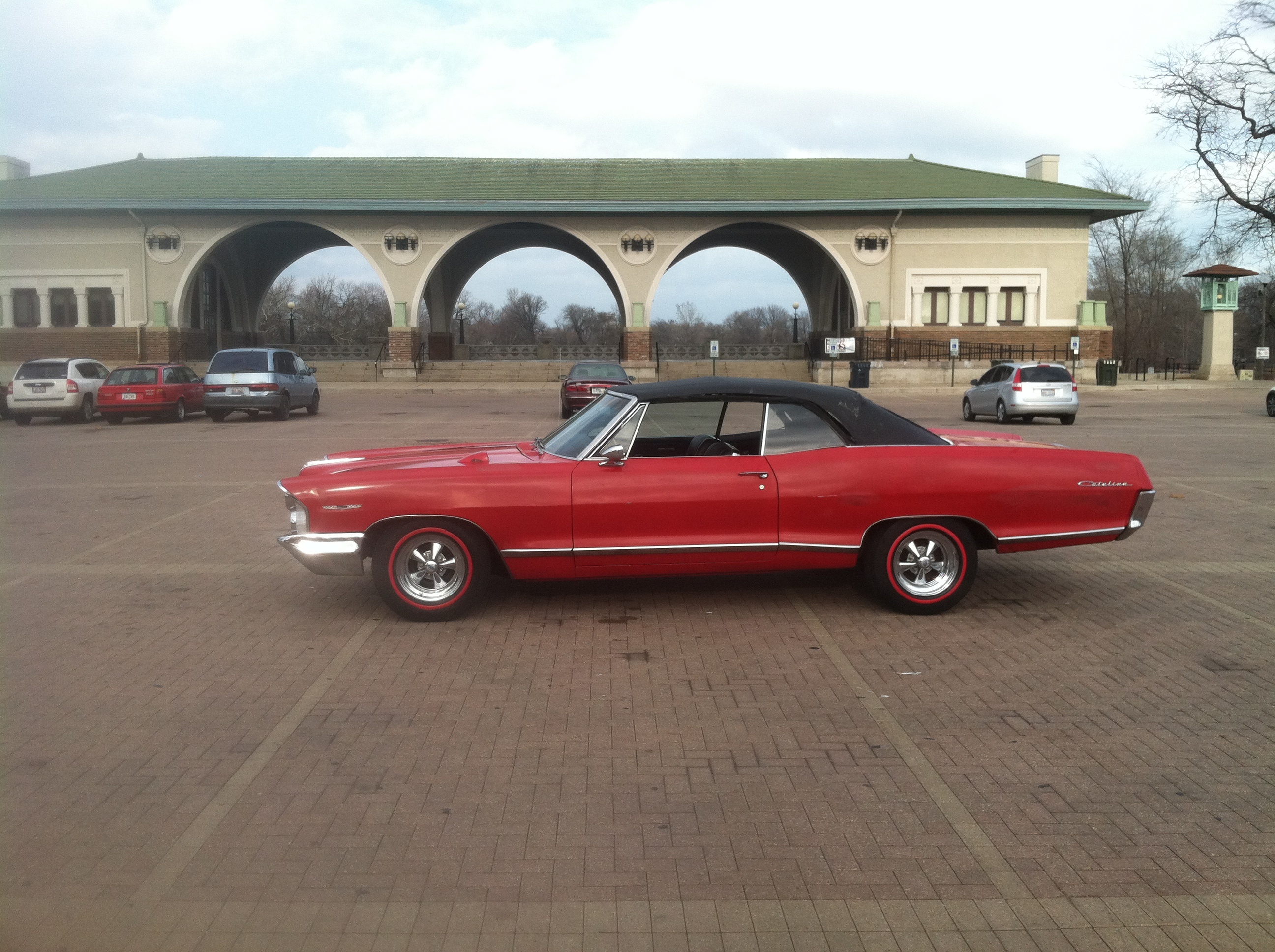 Personal photograph of historic Schmidt, Garden and Martin designed boathouse in Humboldt Park with car show preliminary set up